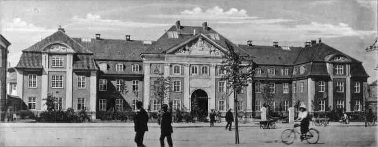 The old Rigshospitalet (1905-10)